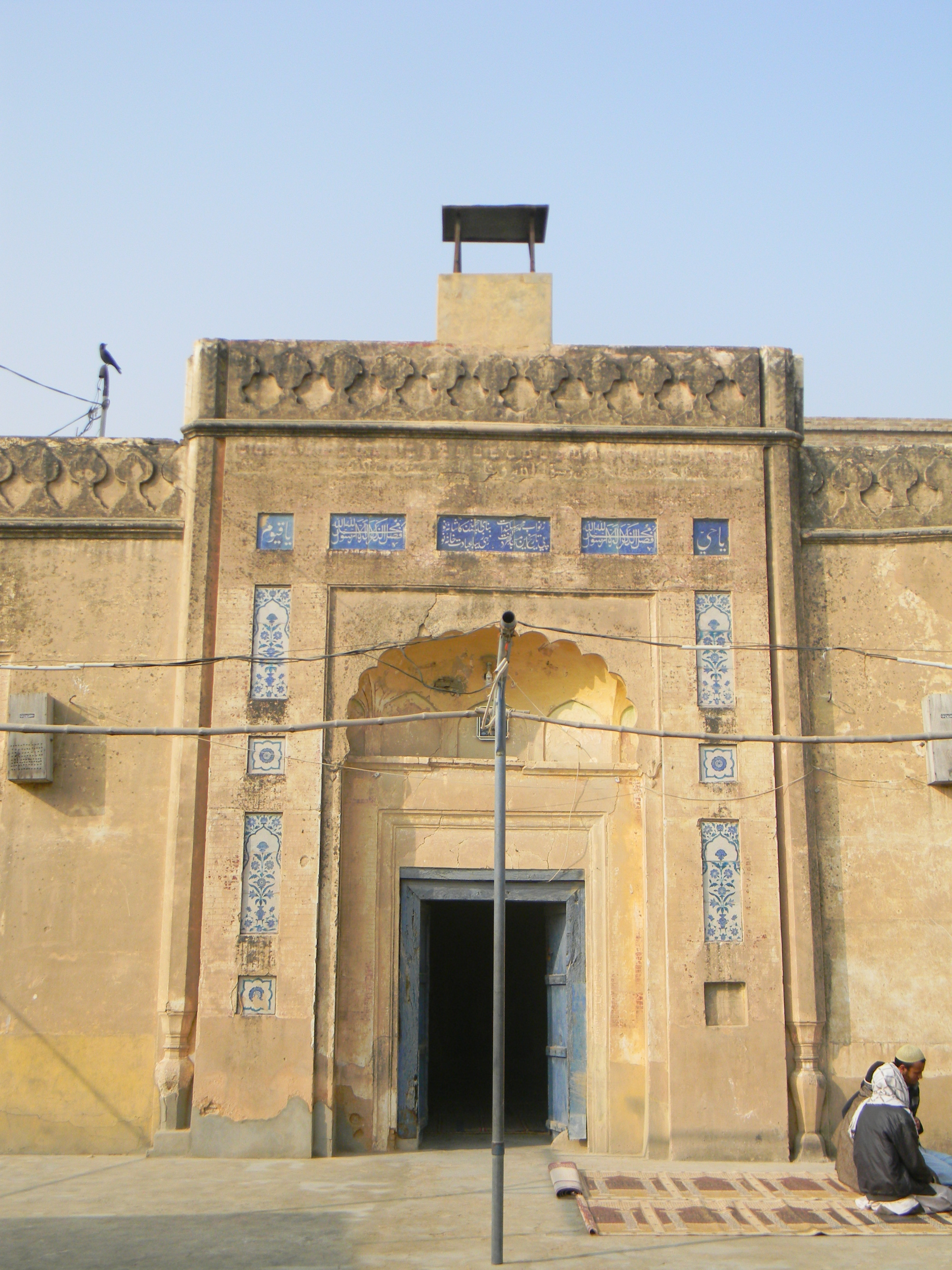 Jamia maseet Mankera..for Punjabi Wikipedia